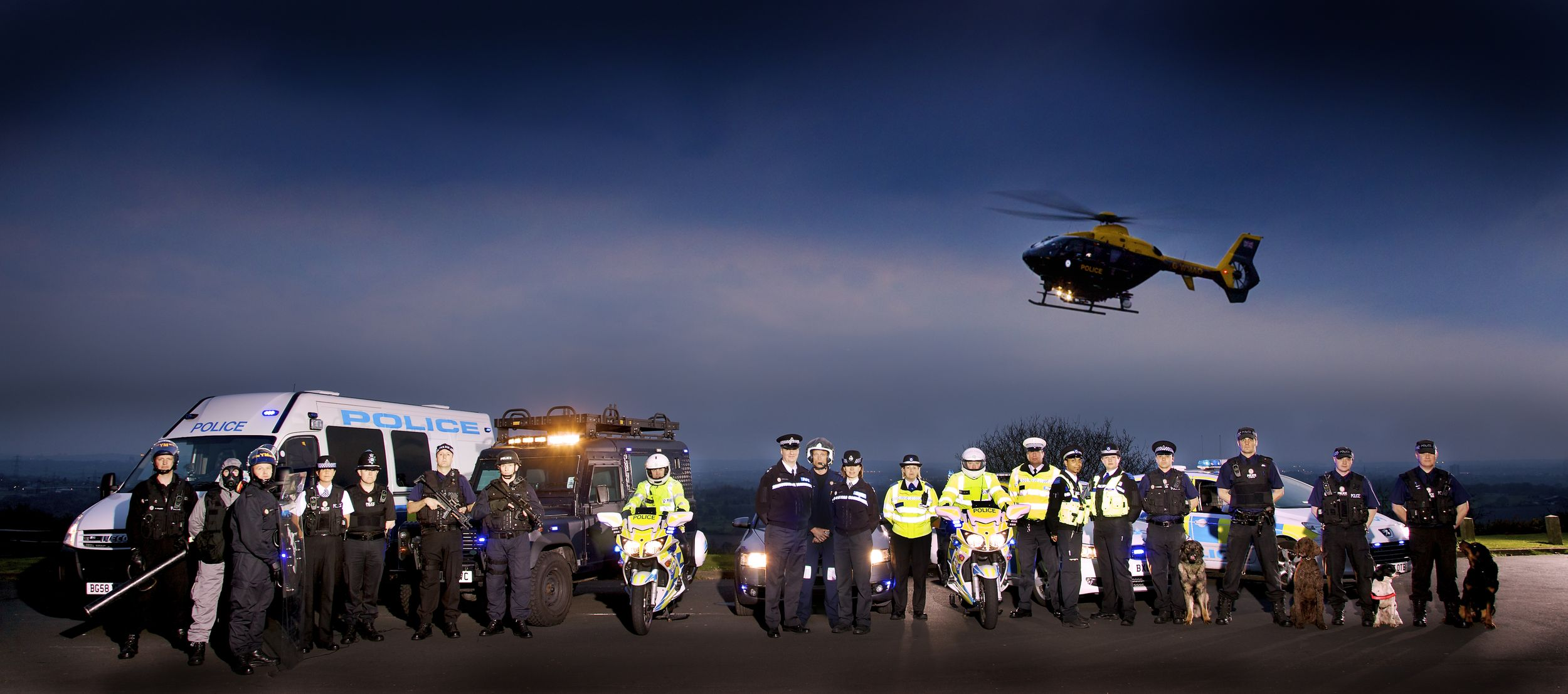 This terrific photograph shows officers from a number of departments that fall under operational policing. The photo includes officers, firearms officers, the dogs unit, our force helicopter, police motorbikes, traffic officers and more. Includes helicopter G-WMAO